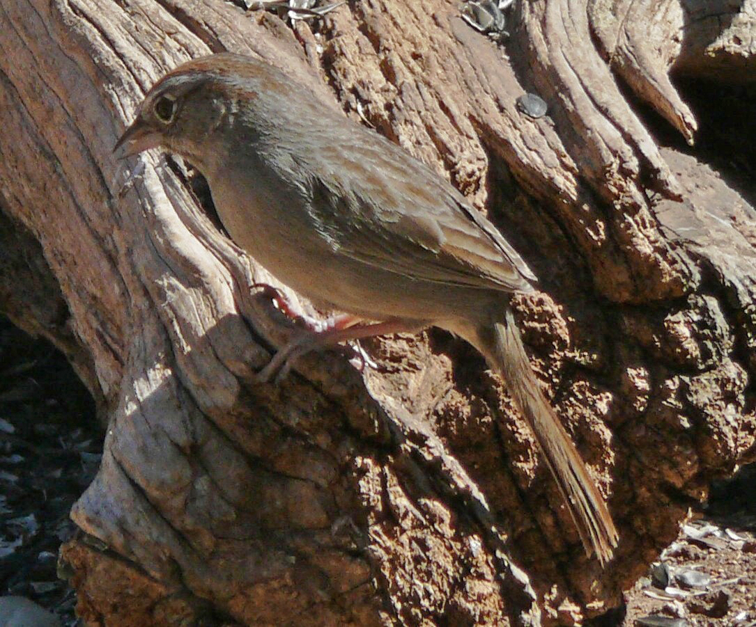 Rufous-crowned Sparrow, Aimophila ruficeps eremoeca, in Texas